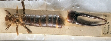 Labidura herculeana (St. Helena earwig) specimen at the Jamestown Museum